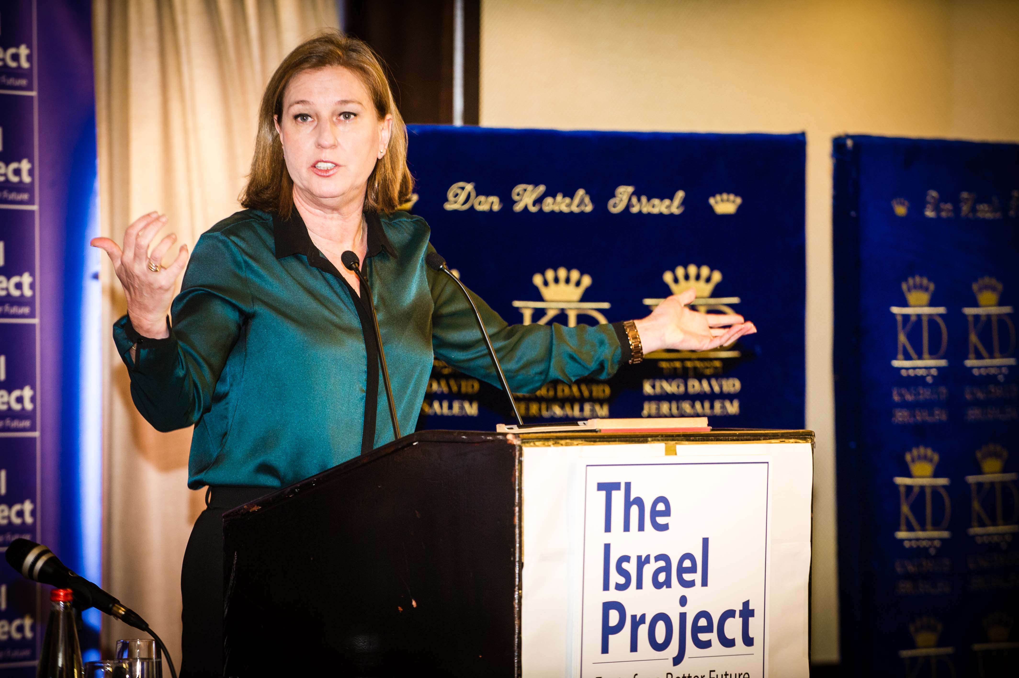 Justice Minister Tzipi Livni at The Israel Project Half Day Briefing, May 28, 2013